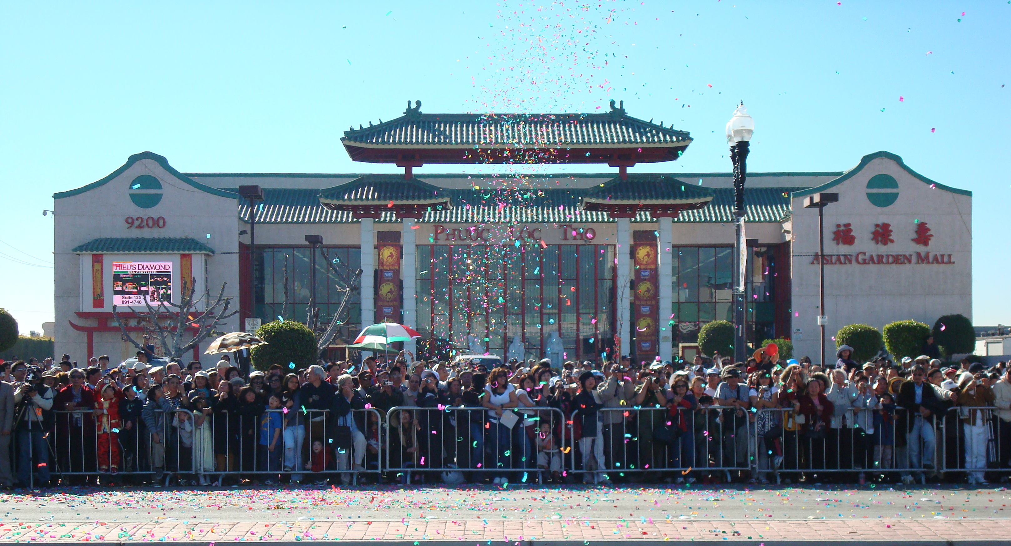 Asian Garden Mall (Vietnamese: Phước Lộc Thọ, Chinese Traditional: 福祿壽, Simplified: 福禄寿, Pinyin: Fúlùshòu), the first Vietnamese-American business center in Little Saigon, Orange County, California, during Tet (Vietnamese New Year) 2008.